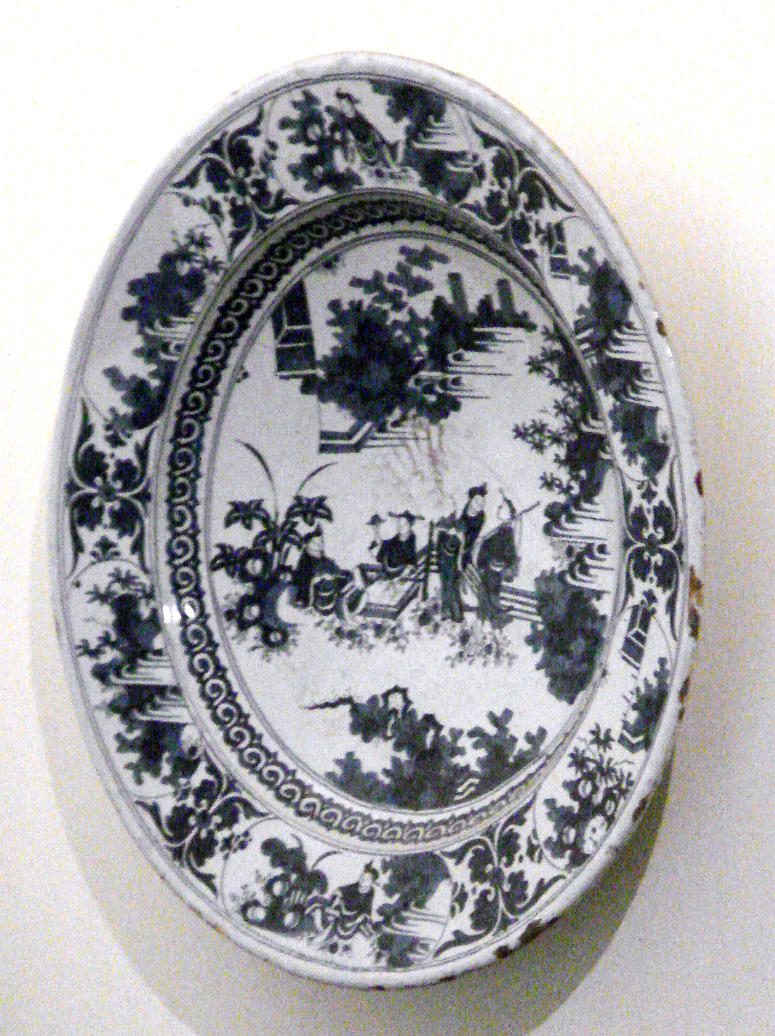 Blue_and_white_porcelain_with_Chinese_scene_Nevers Manufactory France end_of_the_17th_century.jpg